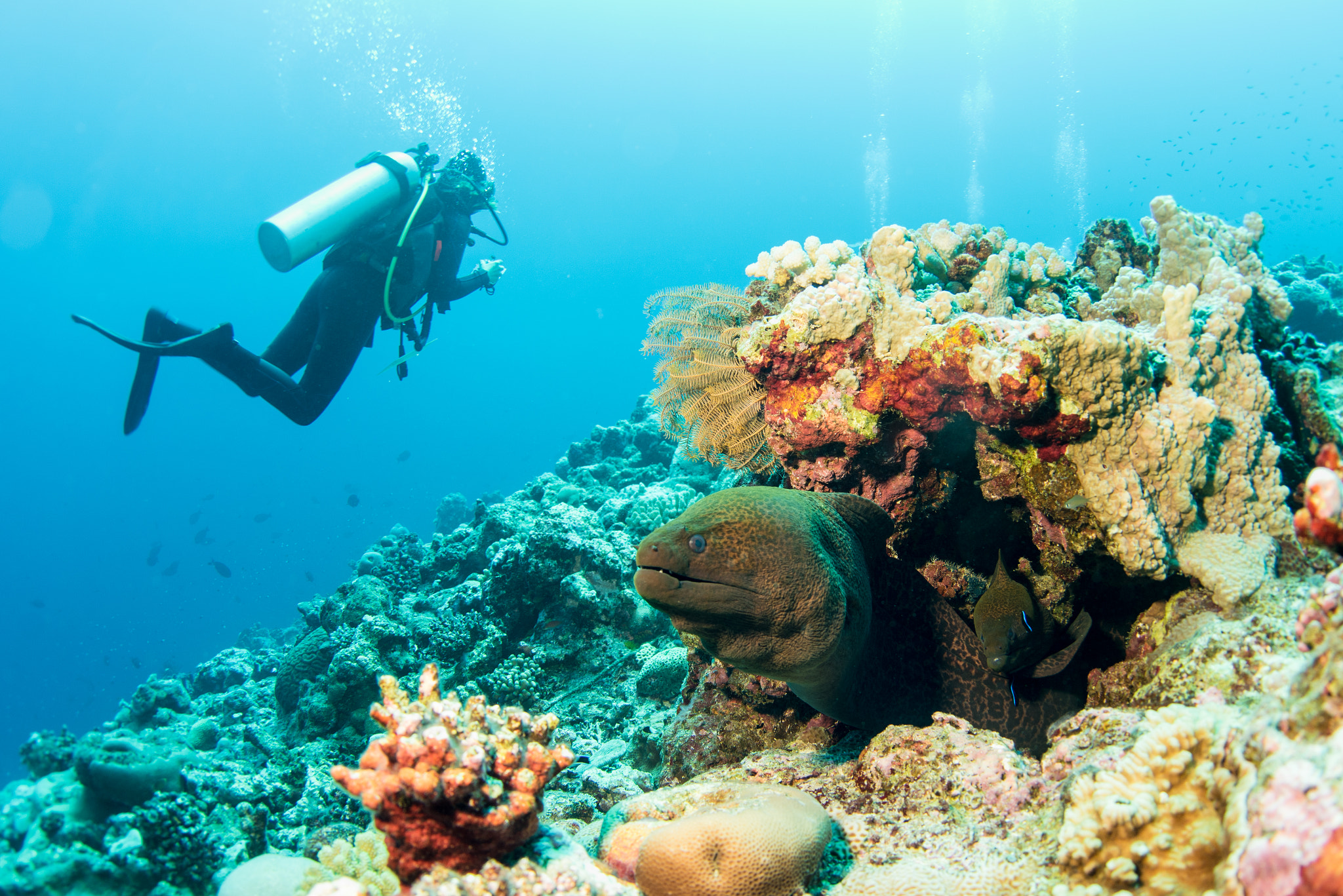 500px provided description: Porch Sitting [#australia ,#queensland ,#coral sea ,#scuba diving ,#liveaboard]